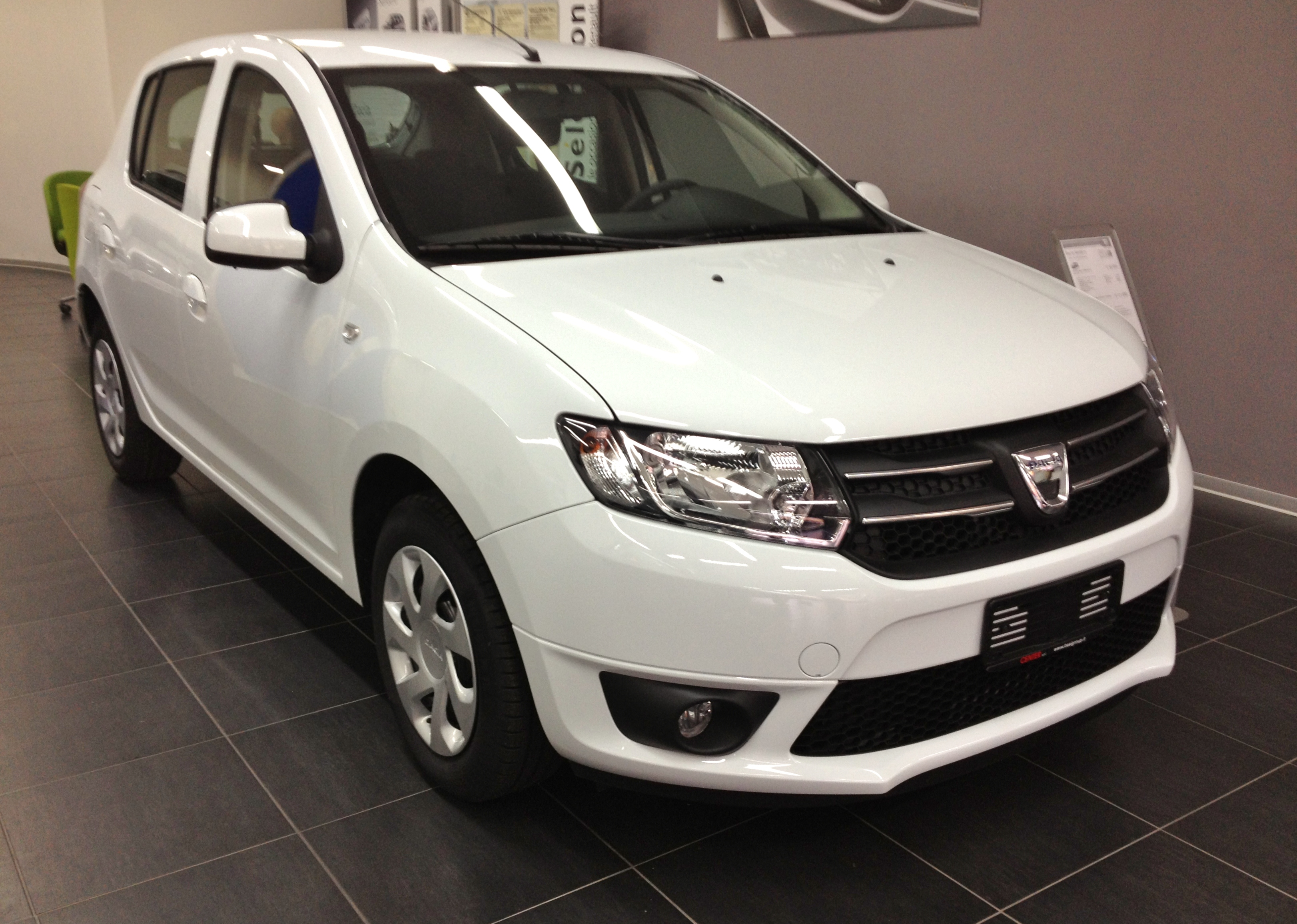 2013 Dacia Sandero II